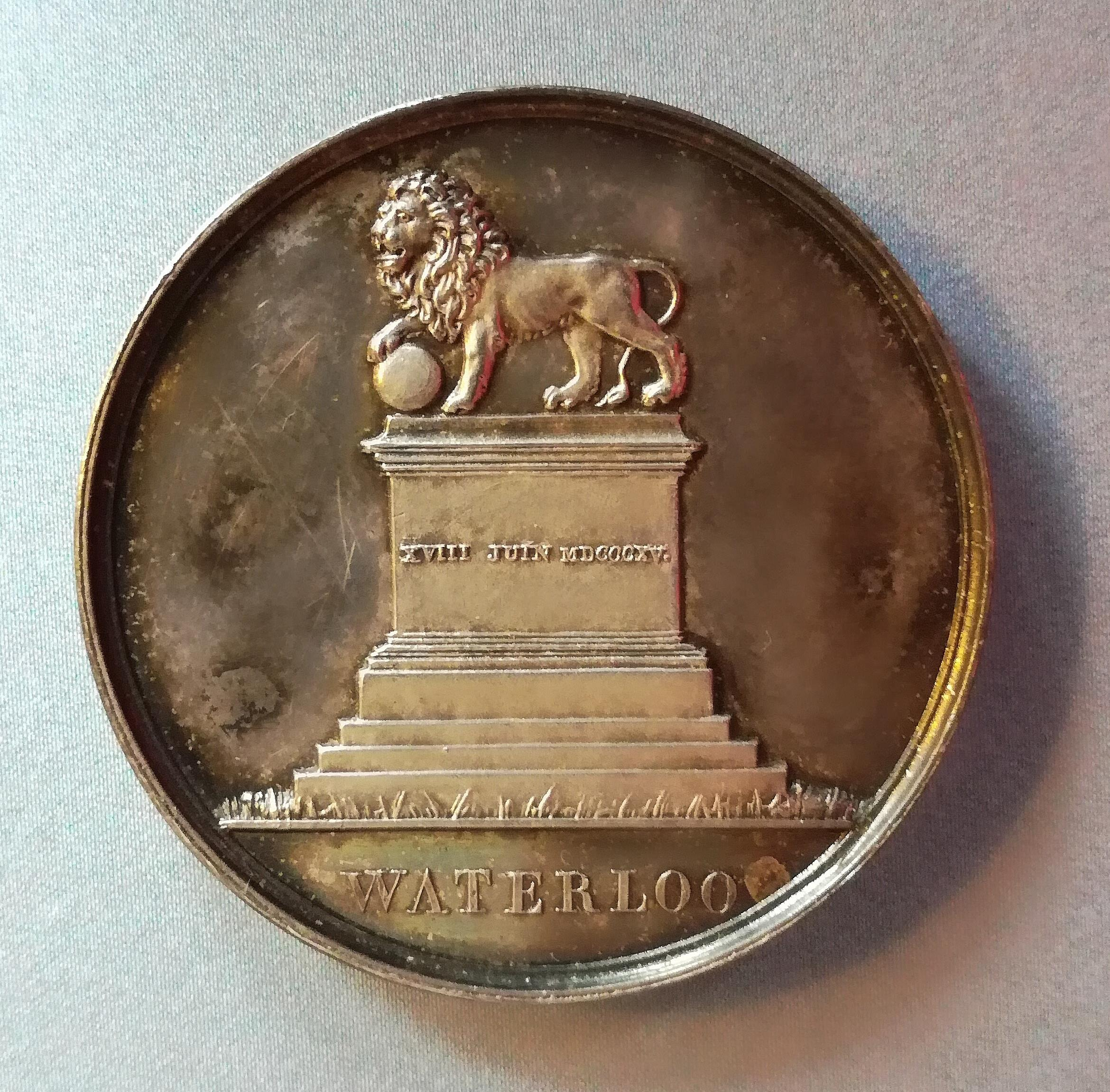 Silver Waterloo medal by Braemt (Belgium-Netherlands), ca 3 cm, made for William I (Willem I) ca 1826. This small medal exists in silver and bronze.